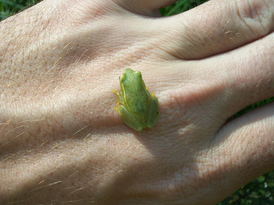 Waterlily Reed Frog (Hyperolius pusillus) from Ilanda Wilds, Amanzimtoti, South Africa. (On human hand for size comparison)